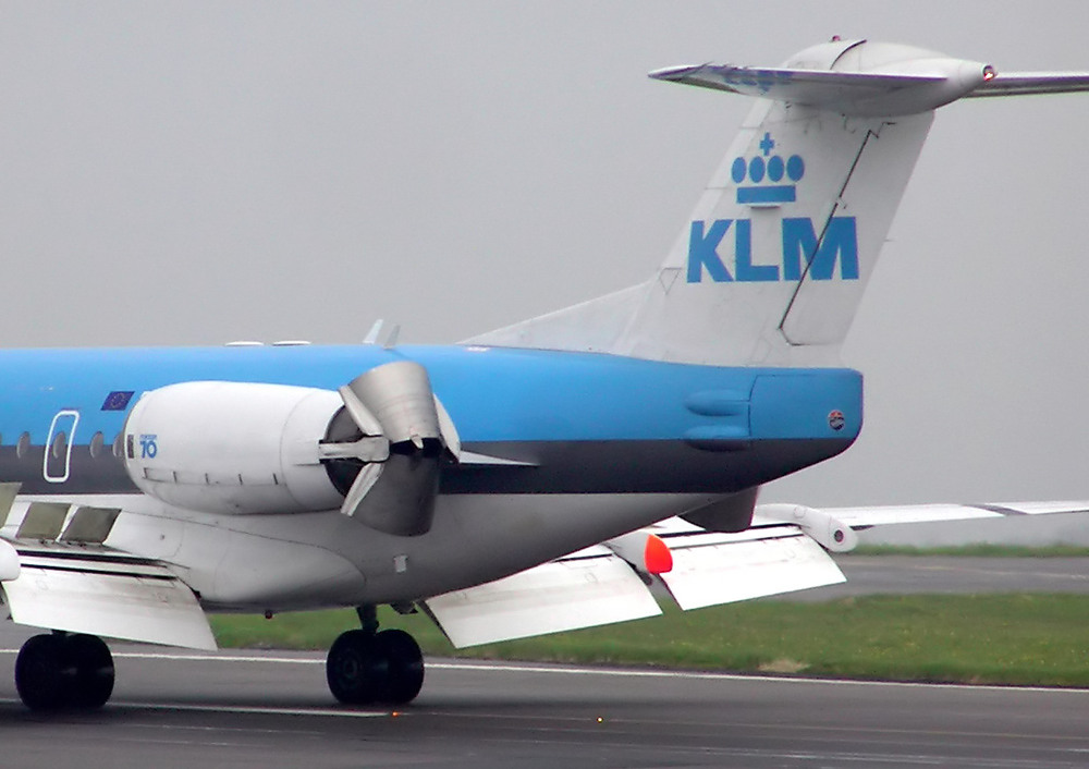 Reverse thrust on a Fokker 70 of KLM at Bristol International Airport, Bristol, England. The thrust reversers are the two surfaces immediately behind the engine.